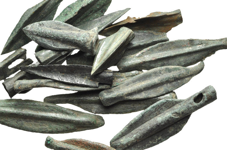 GREEK. Black Sea Region. Æ Arrowhead Proto-Money. Includes: Leaf-shaped, trefoil and triangular cast ‘arrowheads’ of varying length. A few broken or pierced. LOT SOLD AS IS, NO RETURNS. One-hundred (100) ‘arrowheads’ in lot. The Milesian colonies of Olbia, Borysthenes, Istros, Odessos, and Apollonia, founded on the western Black sea coast in the 7th century BC, were once the central points of exchange and trade between the Greeks and local Scythian and Thracian populations. This exchange prompted the introduction of pre-monetary items: the ubiquitous ‘dolphins’ and the scarcer ‘arrowheads’ and ‘wheel-coins’, all cast in copper. These pieces remained in circulation in the west Pontic area for about two centuries, until being finally replaced by struck coinage. Recent publications of finds from South Russia, Ukraine, Bulgaria, and Romania limited the circulation area of these proto-monies to the narrow coastal strip along the western/north-western shores of the Black sea. Some scholars suggested the ‘arrowheads’ were produced there since Apollo, with his bow and arrows, was the main deity who supervised the colonies of Miletus. As a god of archery, Apollo was well known with epithets as Aphetoros (“god of the bow”) and Argurotoxos (“with the silver bow”). For further discussion, cf. H. Bartlett-Wells, 'The Arrow-money of Thrace and South Russia' in: SAN 9/1, 1978, 6-9, 12; SAN 9/2, 24-26, and SAN 12/3, 1981, 53-54); S. Topalov, Formes prémonetaires de moyens d’échange. Les flèches-monnaies couleés d’Apollonie du Pont VII-Ve s.av.n.e., (Sofia 1993); S. Solovyov, ‘Monetary Circulation and the Political History of Archaic Borysthenes’, Ancient Civilizations from Scythia to Siberia, 12/1-2, (Leiden, 2006), 63-75. See also D.M. Schaps, The Invention of Coinage and the Monetization of Greece (Ann Arbor, 2005), for a general study on the invention of coinage.